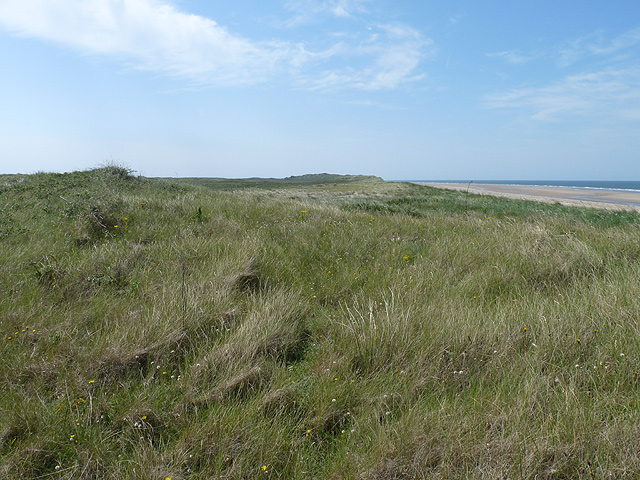 Scolt Head Island: marram grass zone Although there are small dunes to the east and larger sand hills to the west, the central part of the north shore of Scolt Head Island looks like this: a flat, low landscape covered in marram grass, which helps to hold it together. This contrasts to the lunar landscape of sandhills and erosion on the east side of the Burn estuary, as here:909503